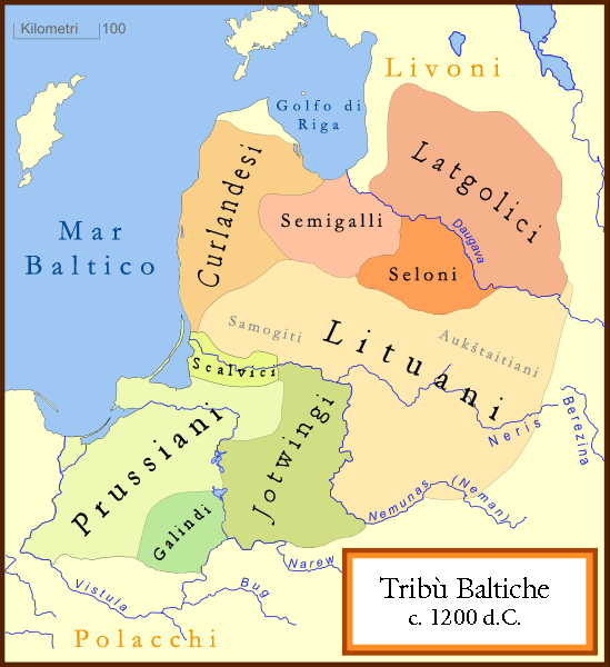 A map of the Baltic Tribes, about 1200 AD. The Eastern Balts are shown in brown hues while the Western Balts are shown in green. The boundaries are approximate. This map uses a Mercator projection.